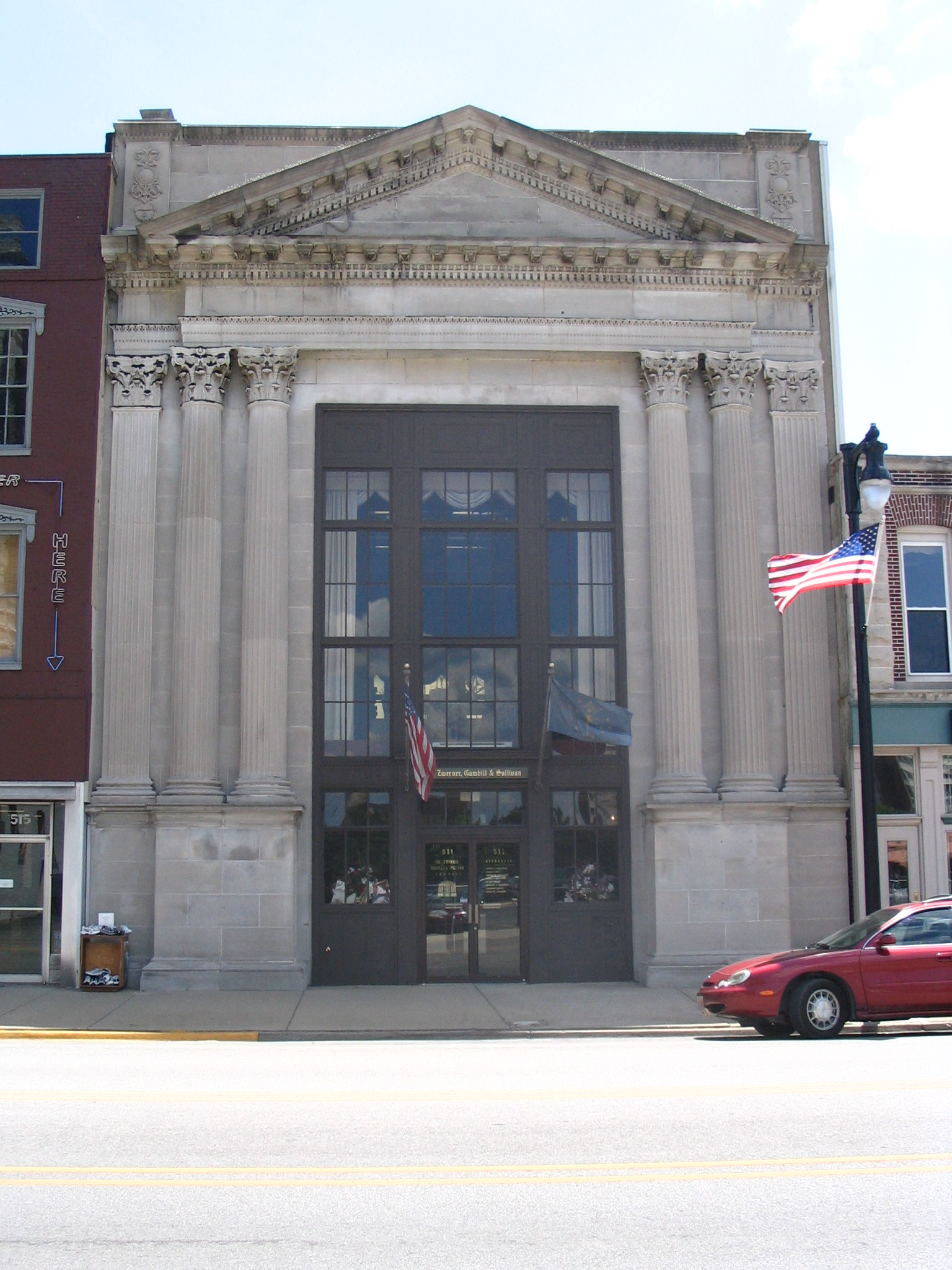 The former First National-McKeen Bank Building, now home to a law firm.